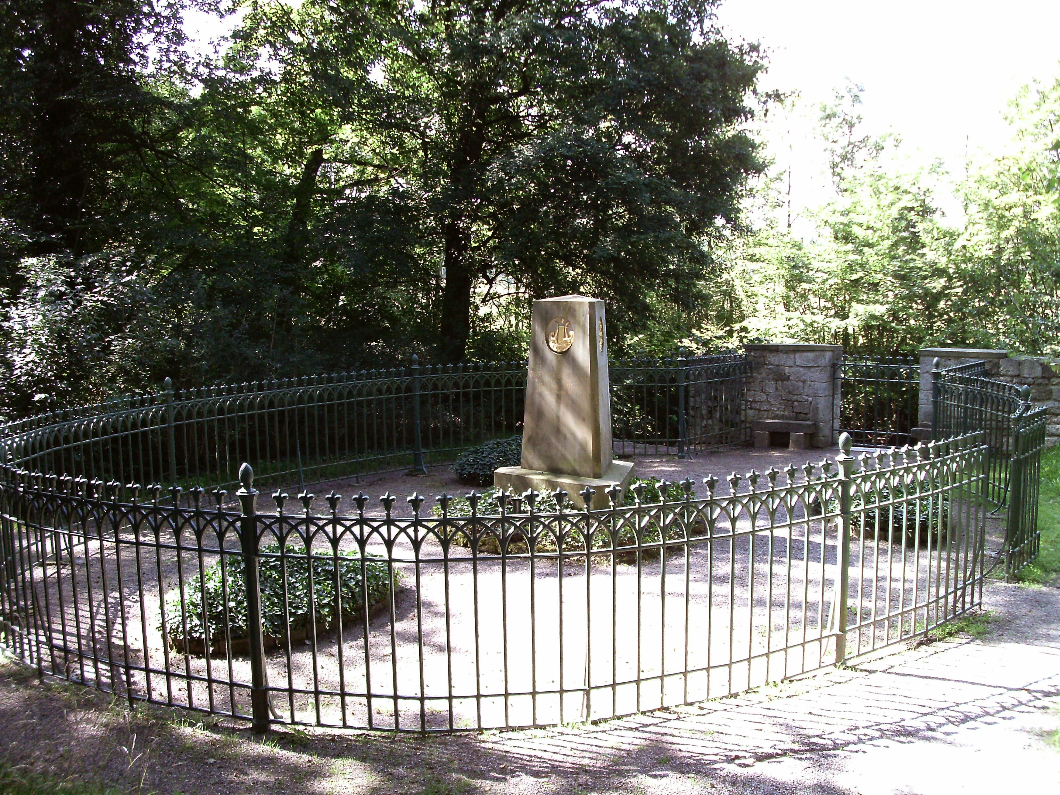 Wieland's grave in the gardens of Ossmannstedt Manor (district of Weimarer Land, Thuringia)